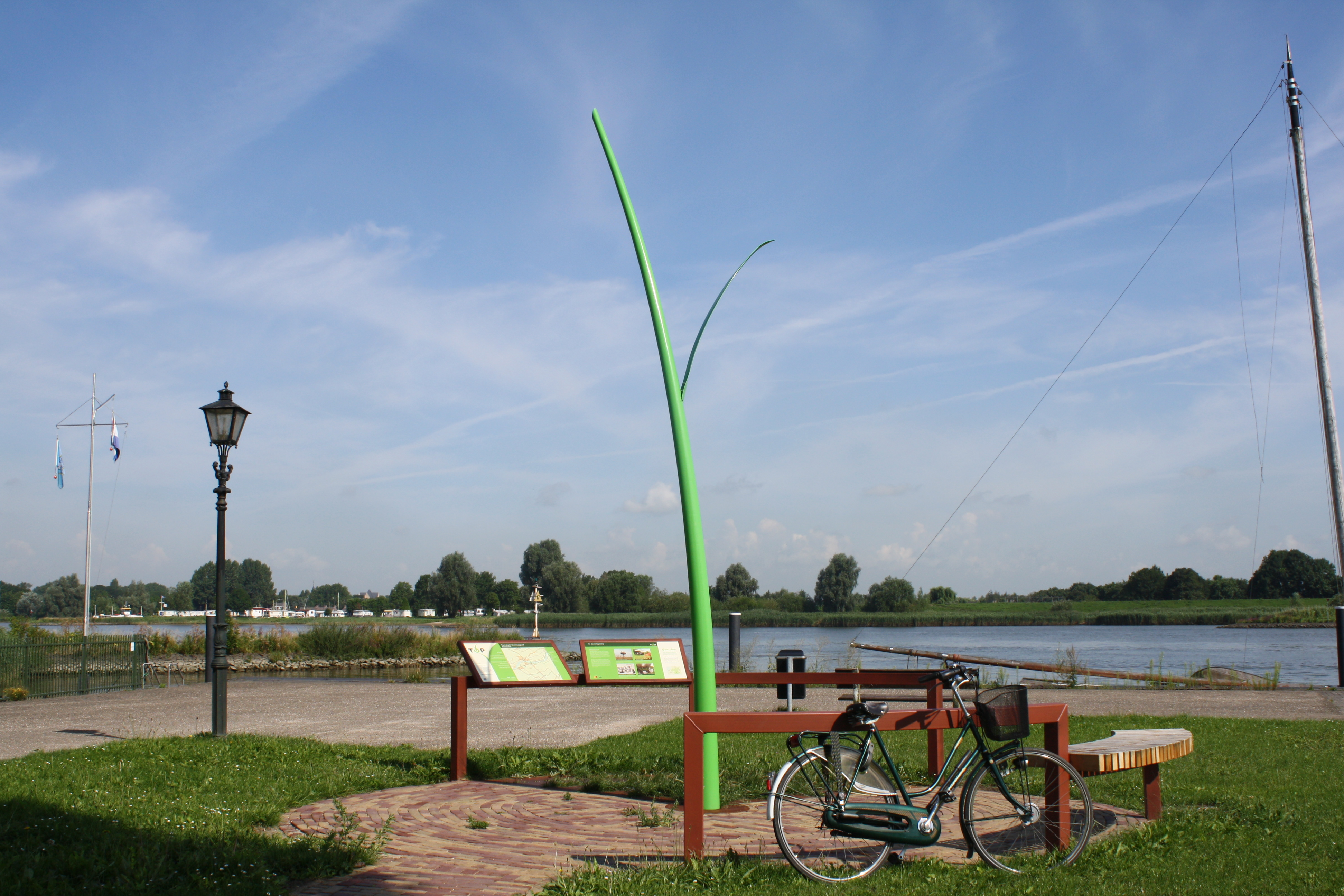 Toeristisch Overstappunt